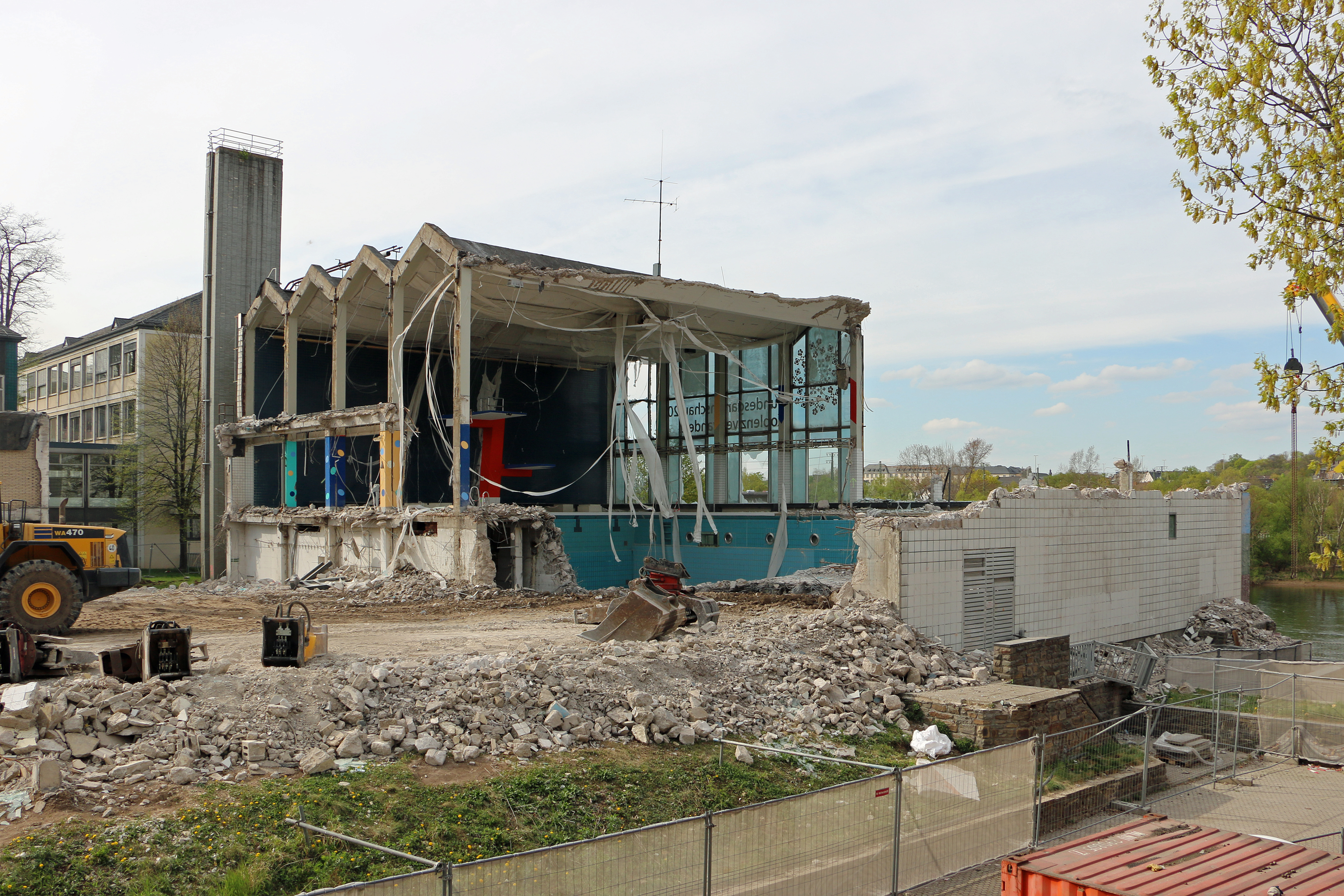 Demolition of the natatorium in Koblenz